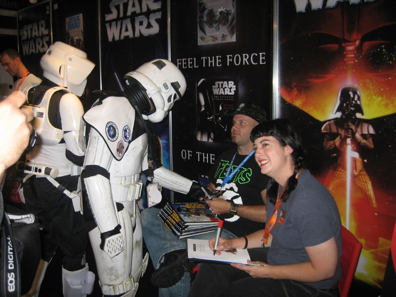 German Garrison members visit You Can Draw: Star Wars author Bonnie Burton and illustrator Matt Busch at their book signing at the DK Booth Celebration Europe. 501st Legion at Star Wars Celebration Europe in 2007 at the ExCeL Exhibition Centre, London.